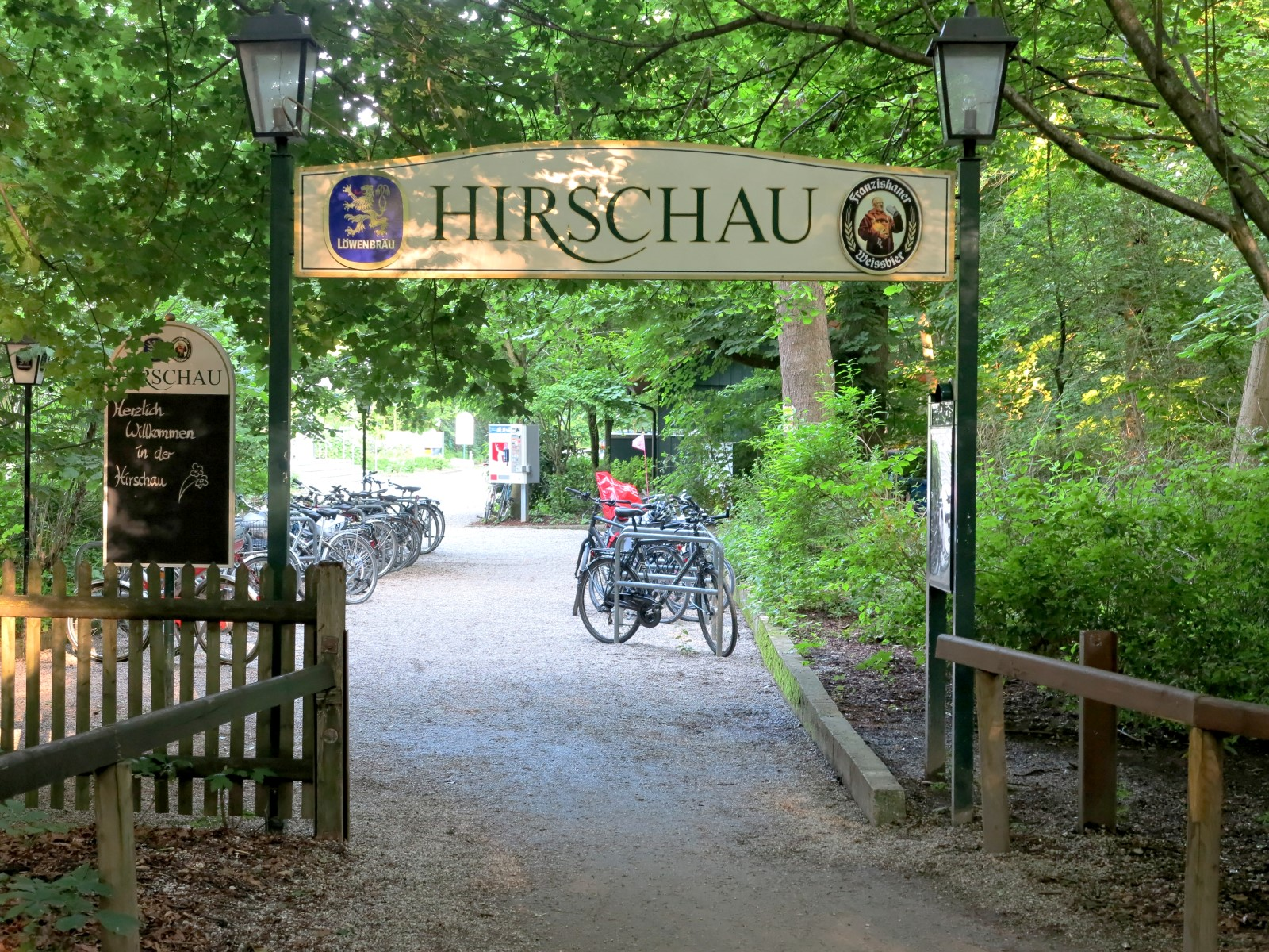 Beergarten "Hirschau"